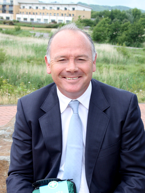 Ieuan Evans, Welsh rugby union player